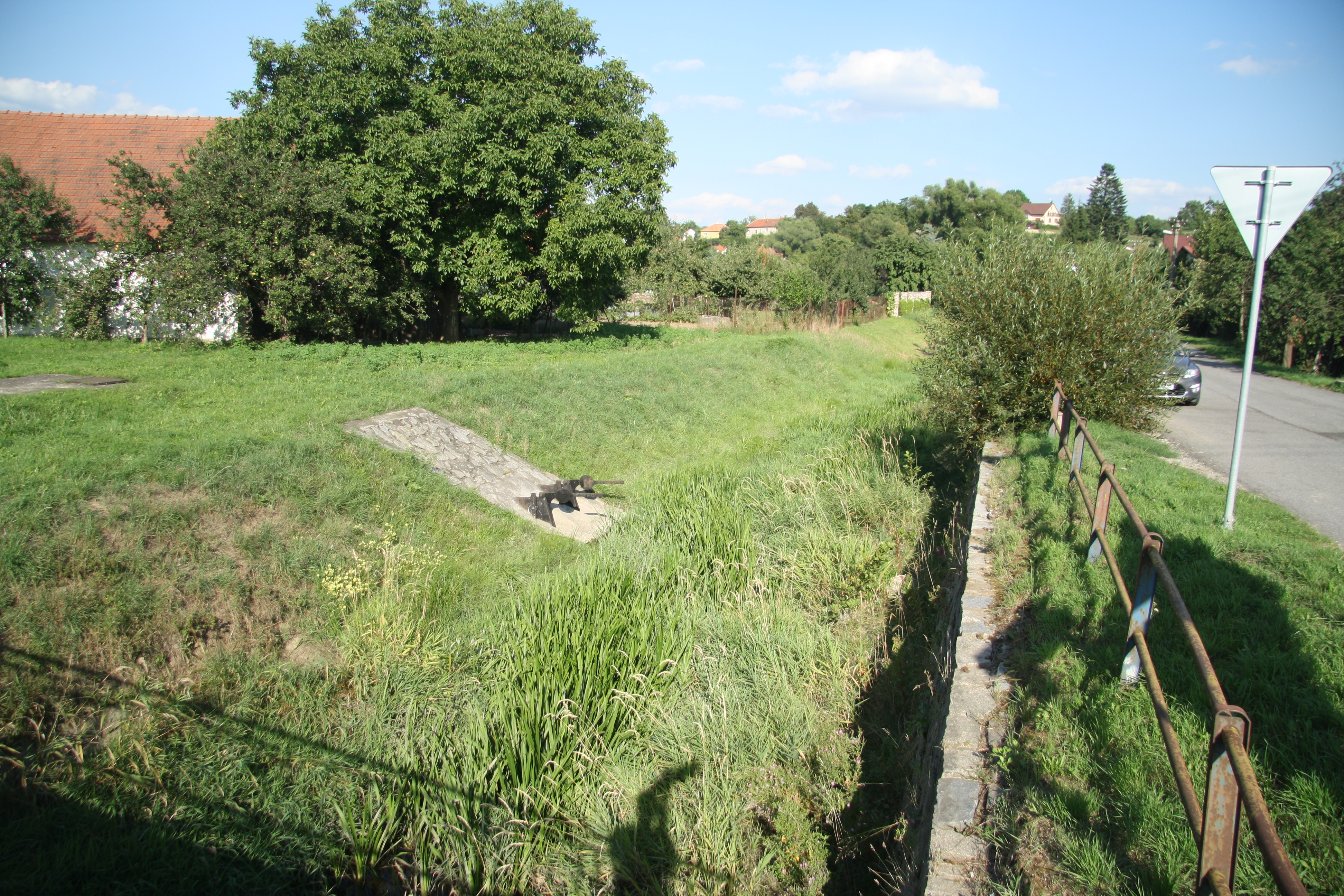 Bitýška river in Velká Bíteš, Žďár nad Sázavou District.